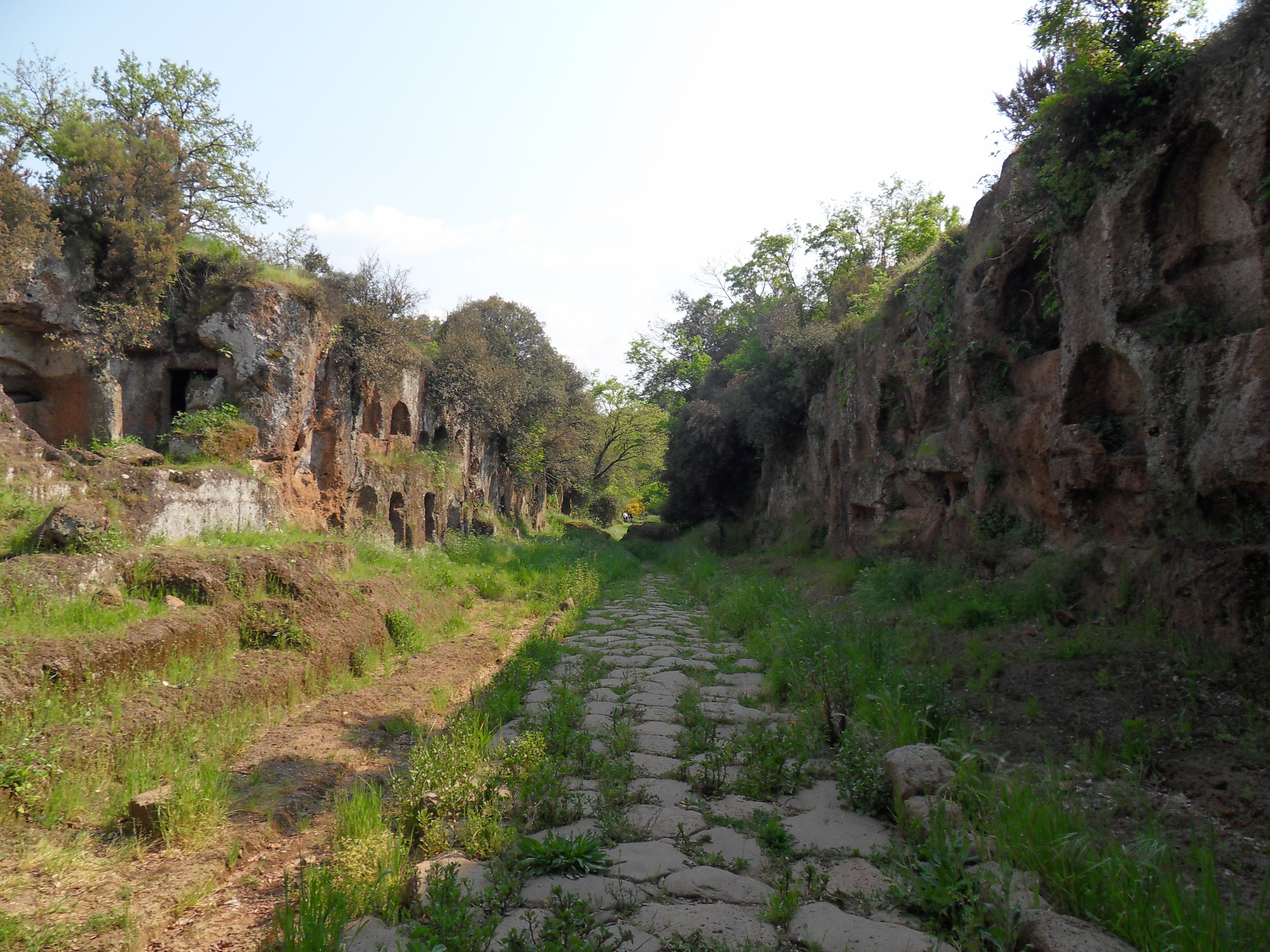 The necropolis of "Tre ponti": the "Cavo degli Zucchi" with the roman's way Amerina